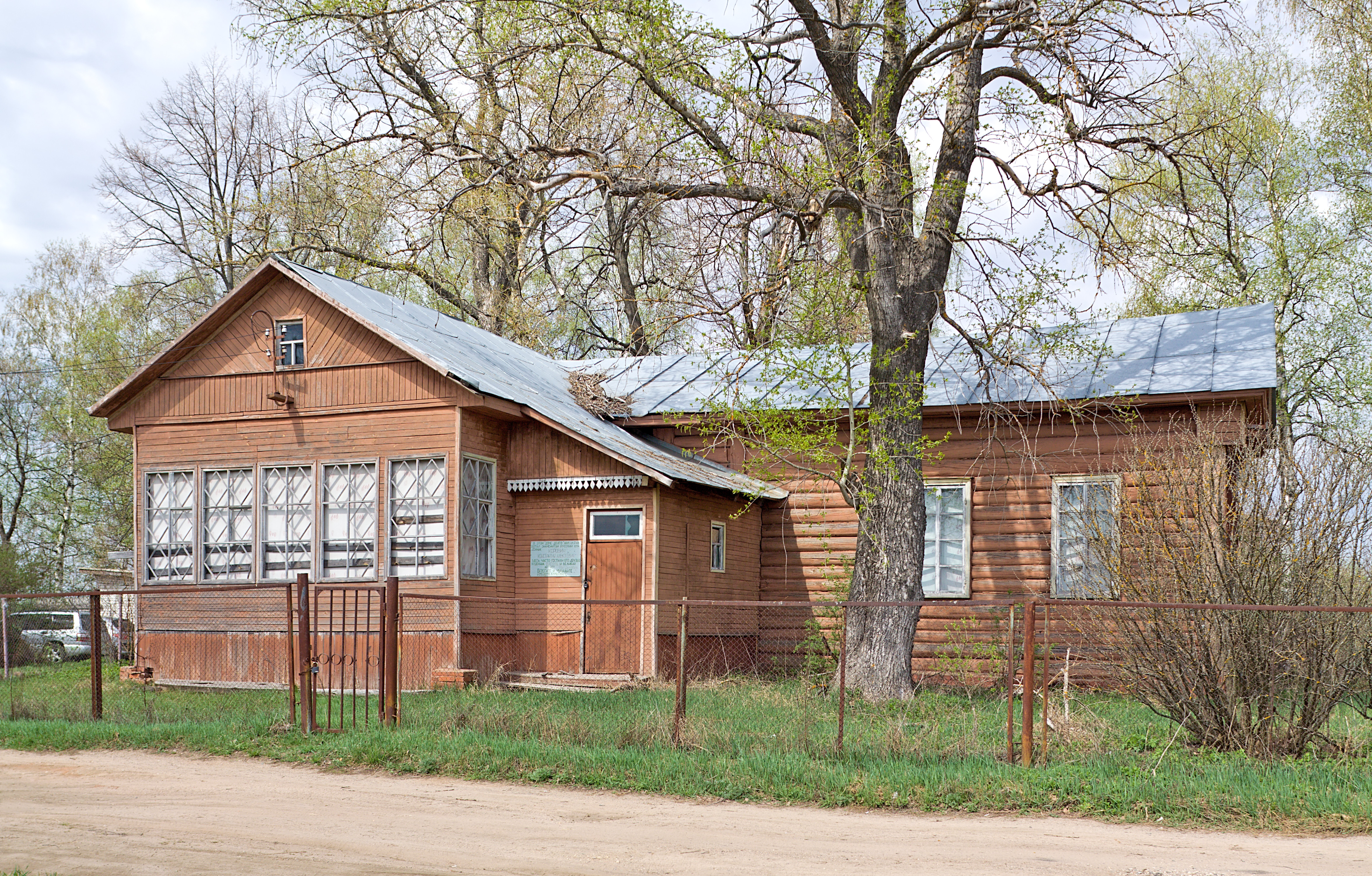 Artist Korovin's house in Okhotino village, Pereslavl district. Nowadays the house is abandoned and left without any governmental protection.